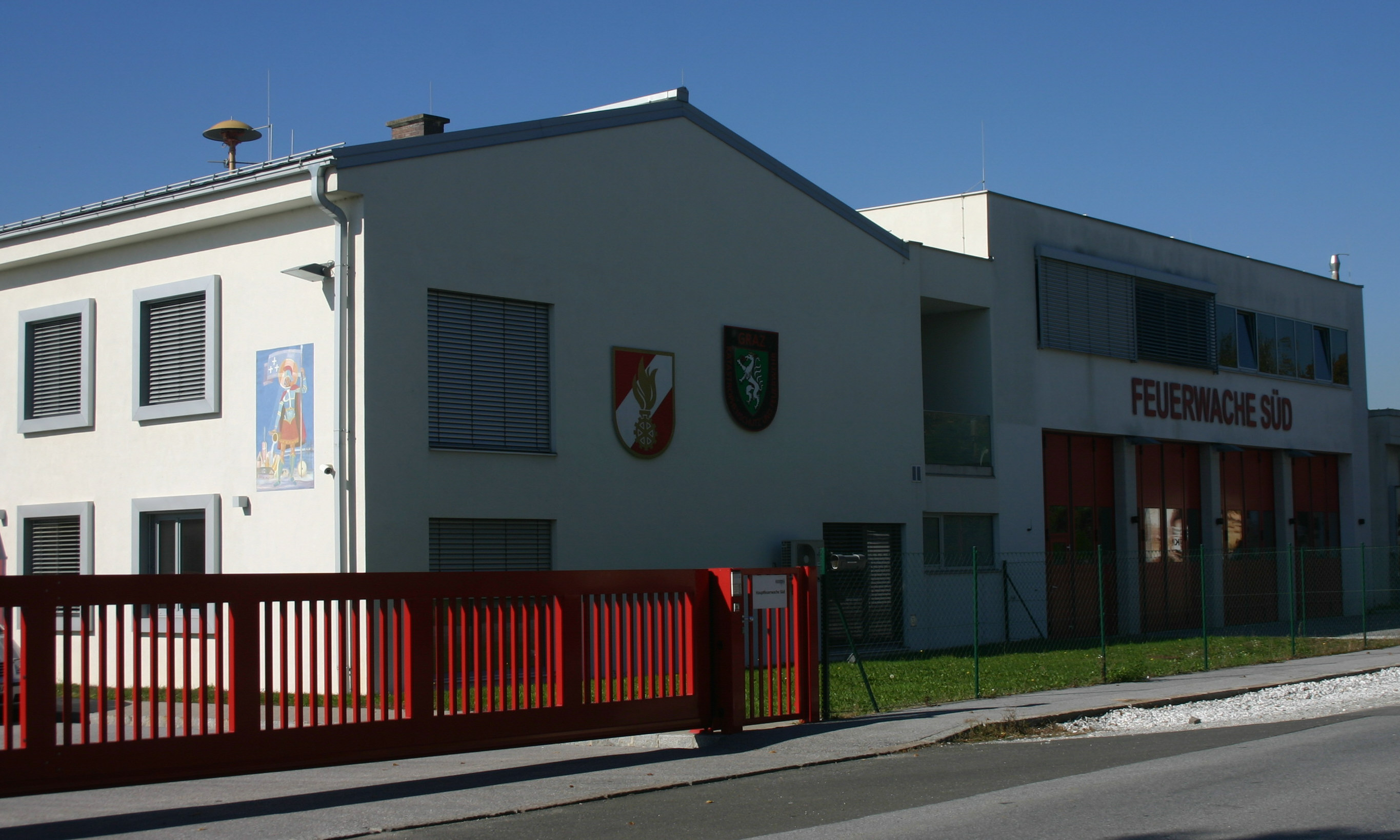 Fire station Graz Süd